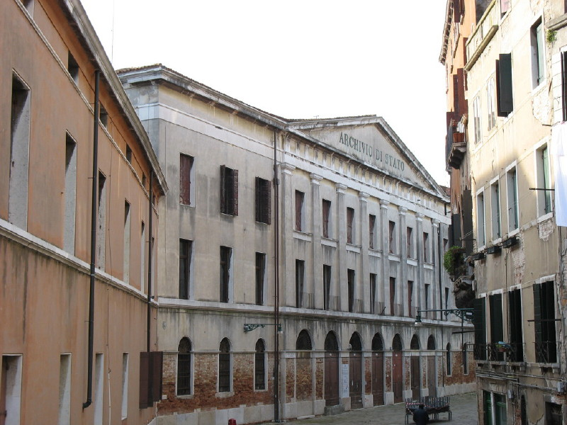 The front of the state archive building.